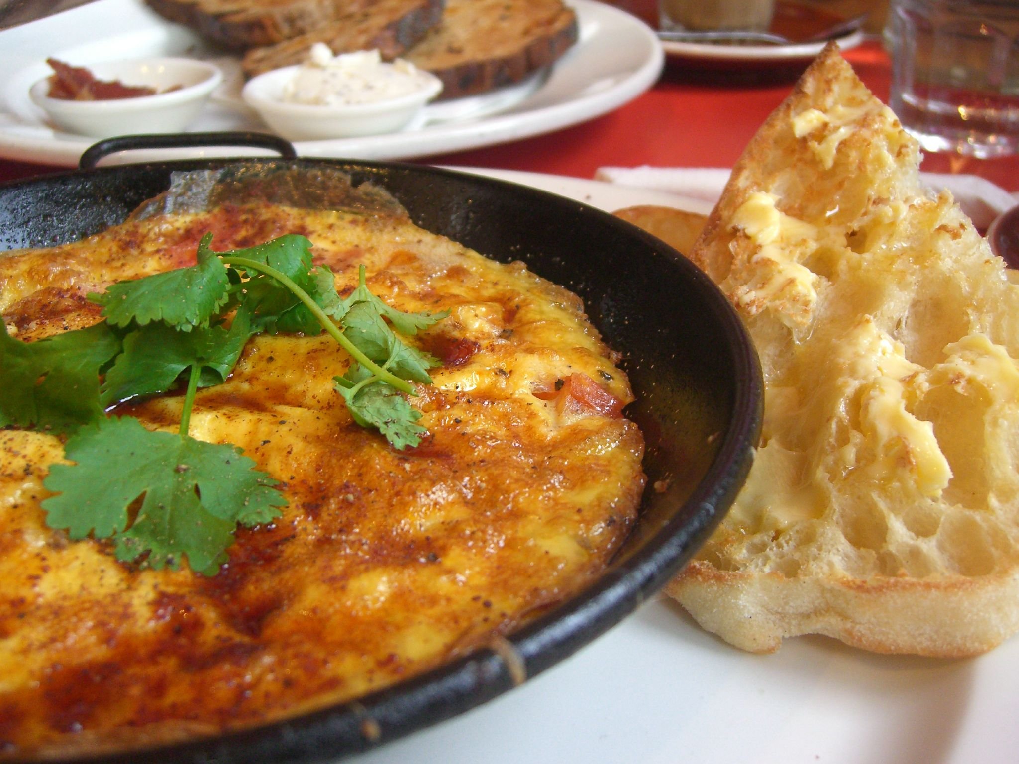 Baked Moroccan Omelette with Haloumi, Tomatoes and Capsicums